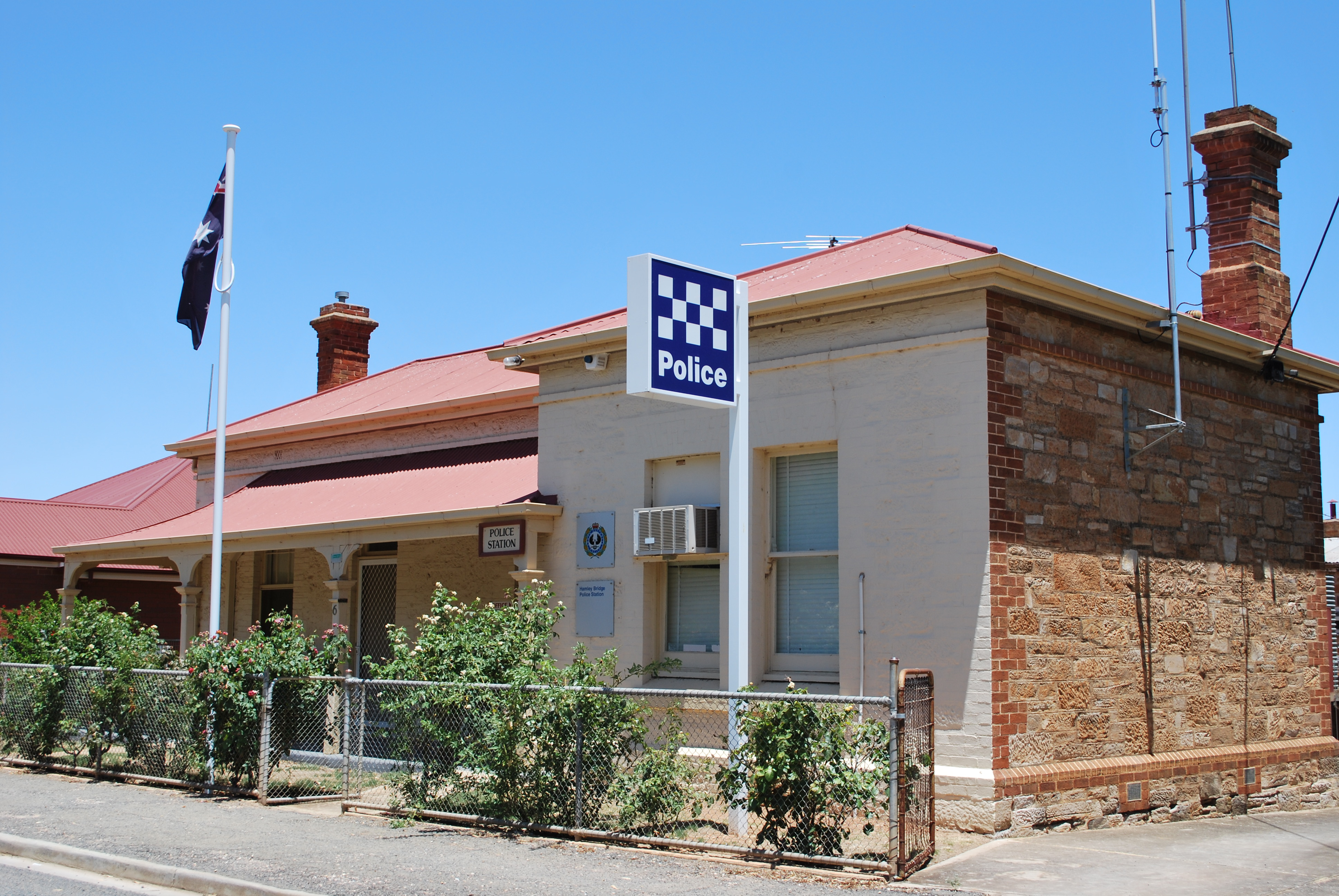 Police station in Hamley Bridge, South Australia